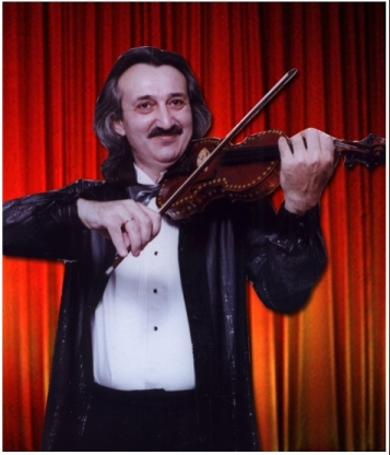 Photo of Violinist/ Composer/ Arranger Maestro Albert Asriyan